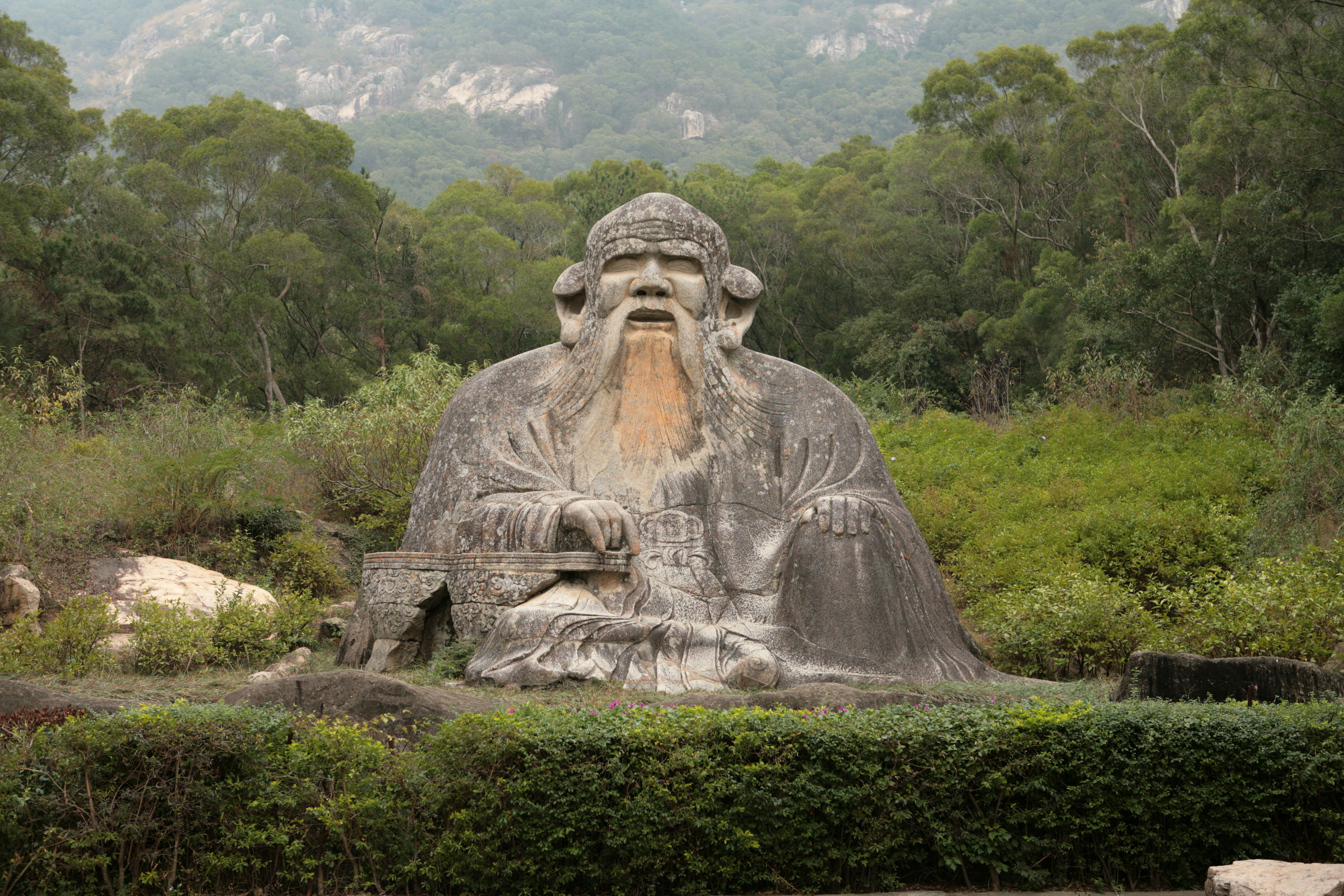 Statue of Lao Tzu (Laozi) in Quanzhou